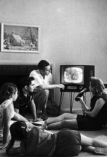 American family watching TV (cropped)